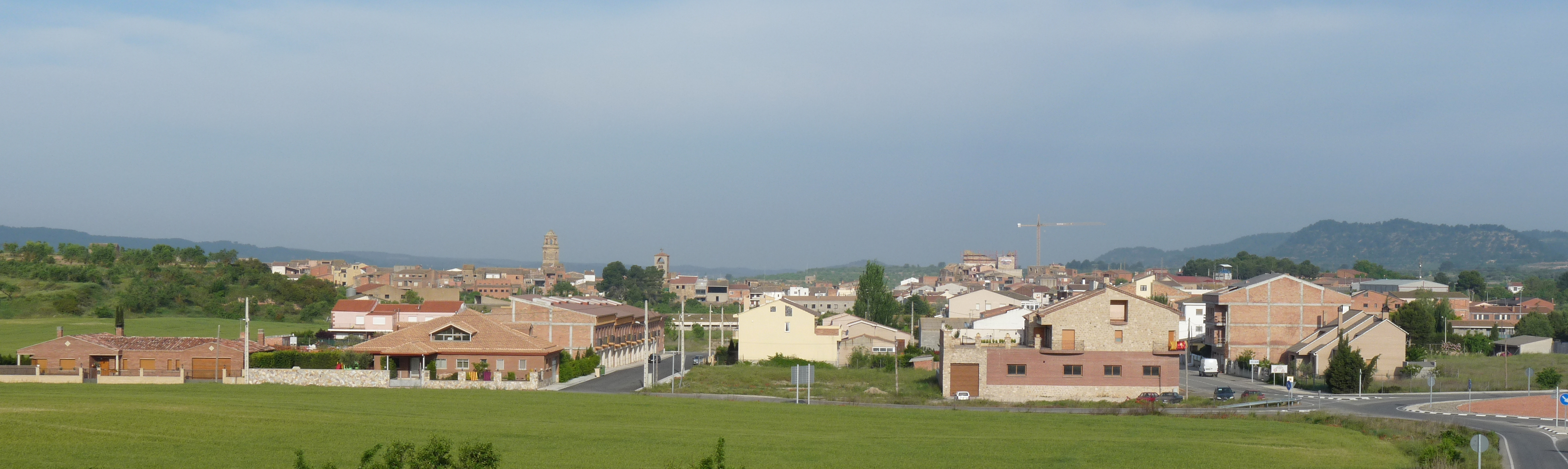 L'Albi